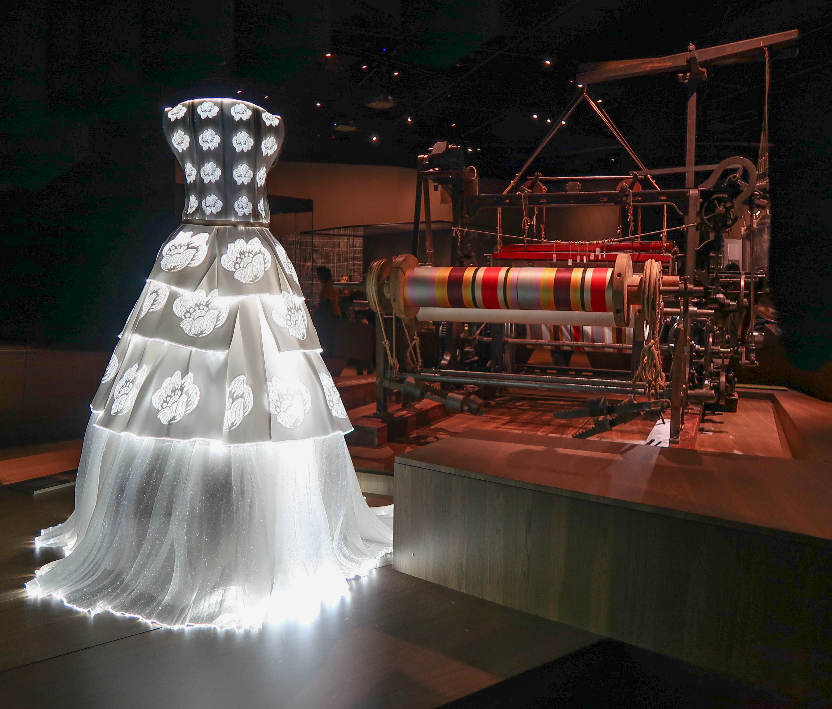 Silk dress. Mechanical loom Diederichs 7700. 1903, France, Isère, Bourgoin-Jallieu. Diederichs workshops. Steel, cast iron, wood. Deposit of the Musée du Dauphinois weaver, La Batie Montgascon. "This Diederichs craft, with its electric motor and great adaptability, is typical of factory production that developed in the late nineteenth century." : notice, Musée des Confluences. Lyon.